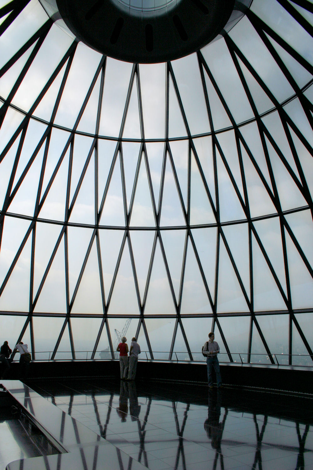 Photo taken by Ian Mansfield of the top floor restaurant and reception area of The Gherkin. Taken on Open House London, where notable buildings are open to the public.